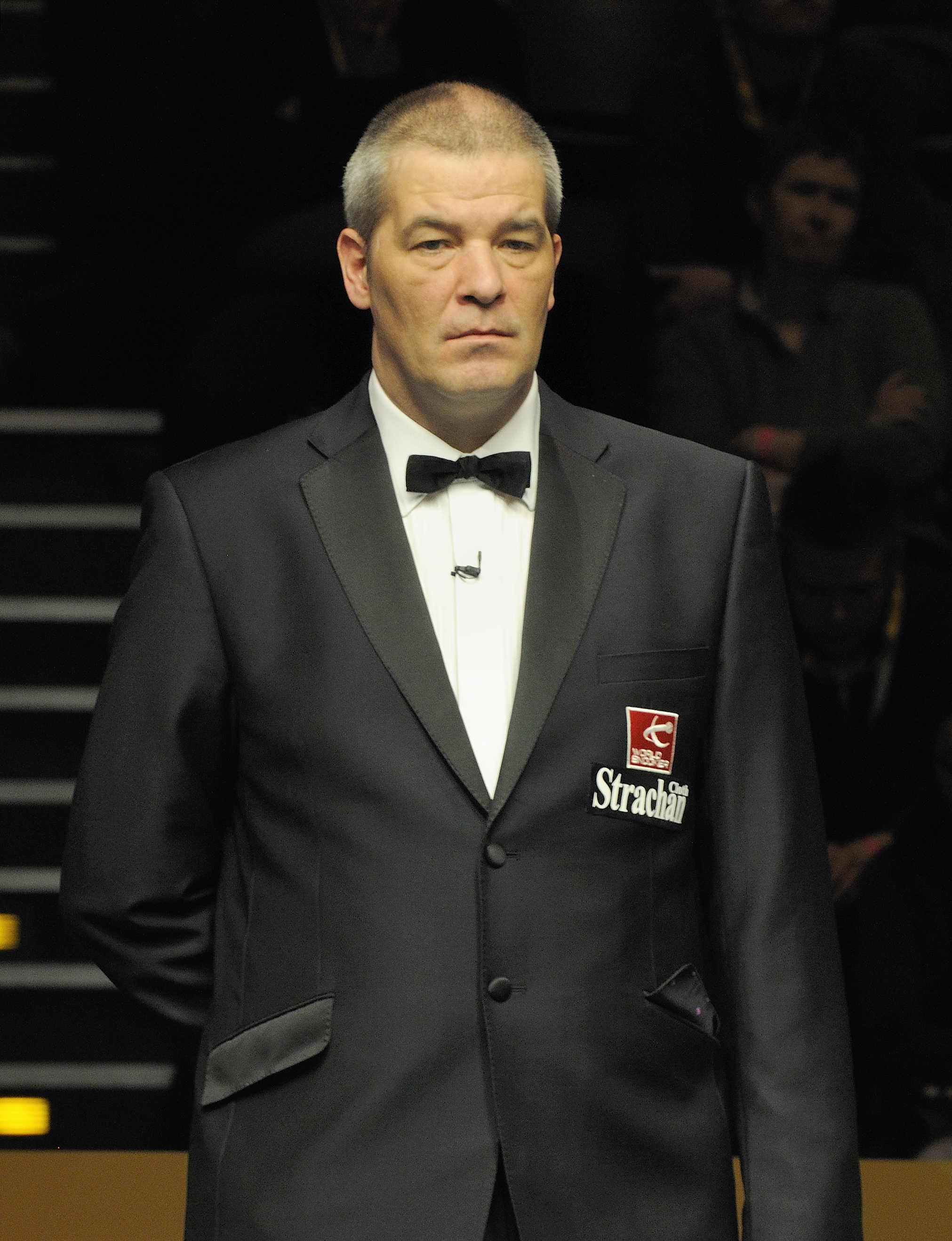 Picture taken in Berlin during the Snooker German Masters in 2013. Jan Verhaas.